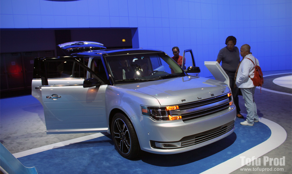 LA Auto Show 2012